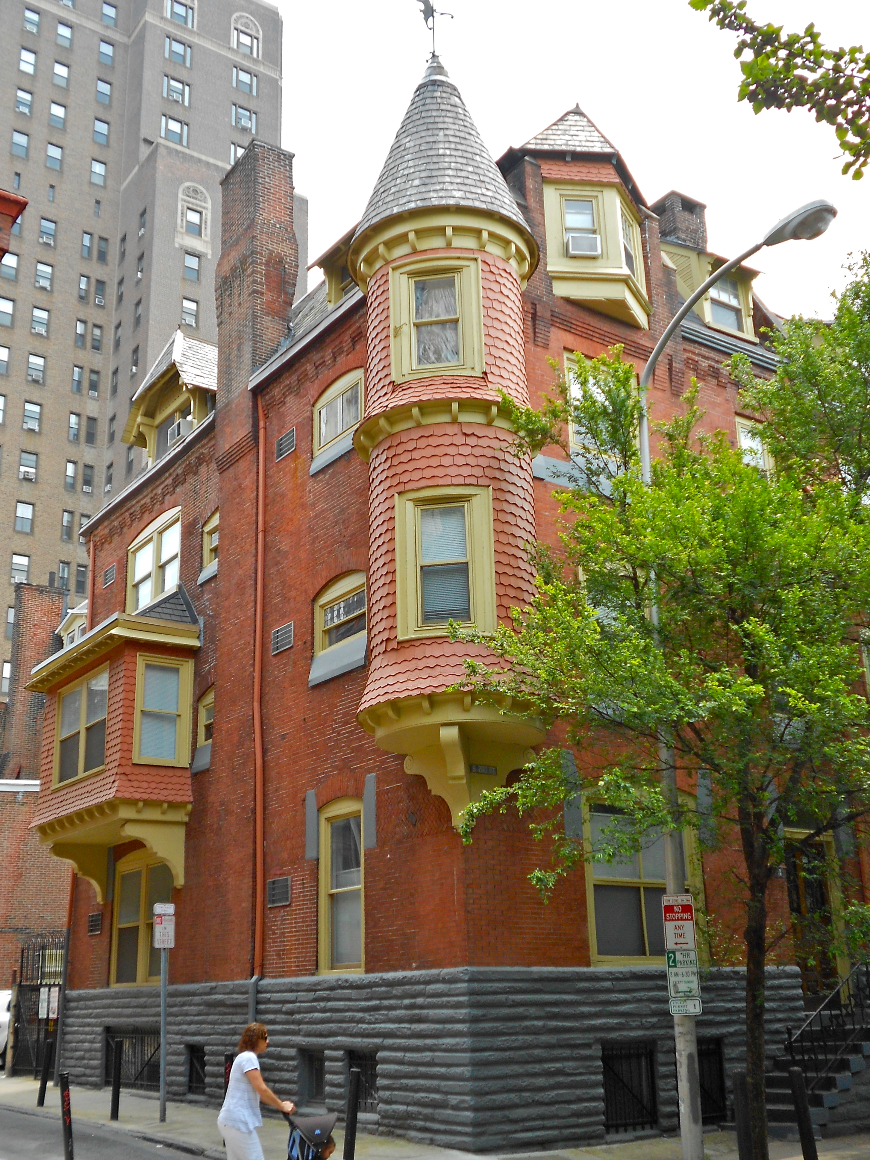 Allen Evans house (1883), 237 South 21st Street, Philadelphia. Part of Hockley Row on the NRHP